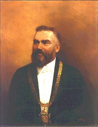 A portrait of Tadija Smičiklas, by J. Bužan, 1902